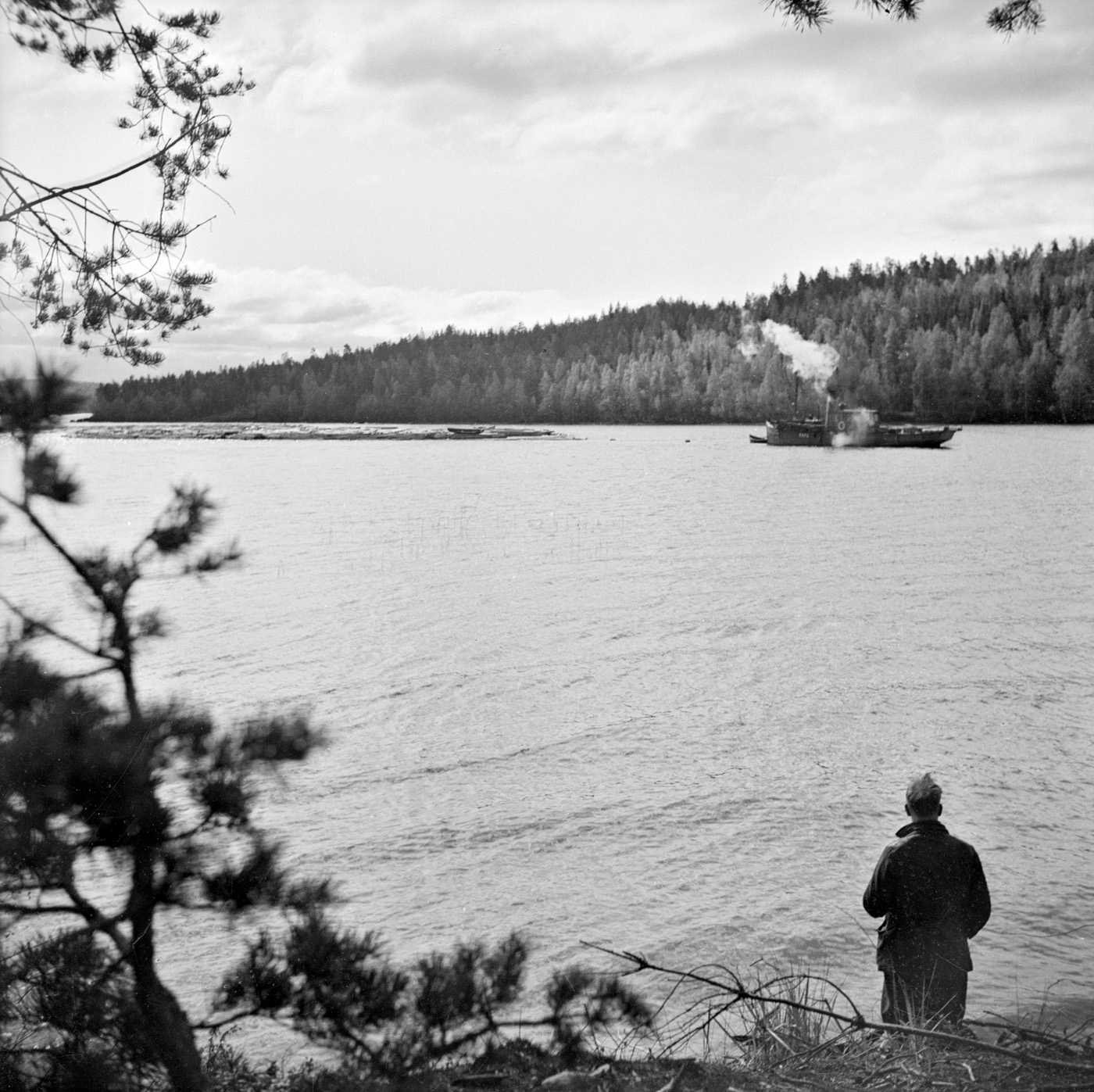 Tugboat pulling logs in Finland probably on Päijänne in 1930s